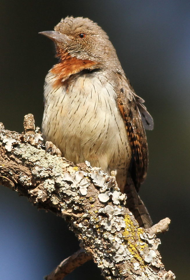 Red-throated Wryneck, Jynx ruficollis at Rietvlei Nature Reserve, Gauteng, South Africa